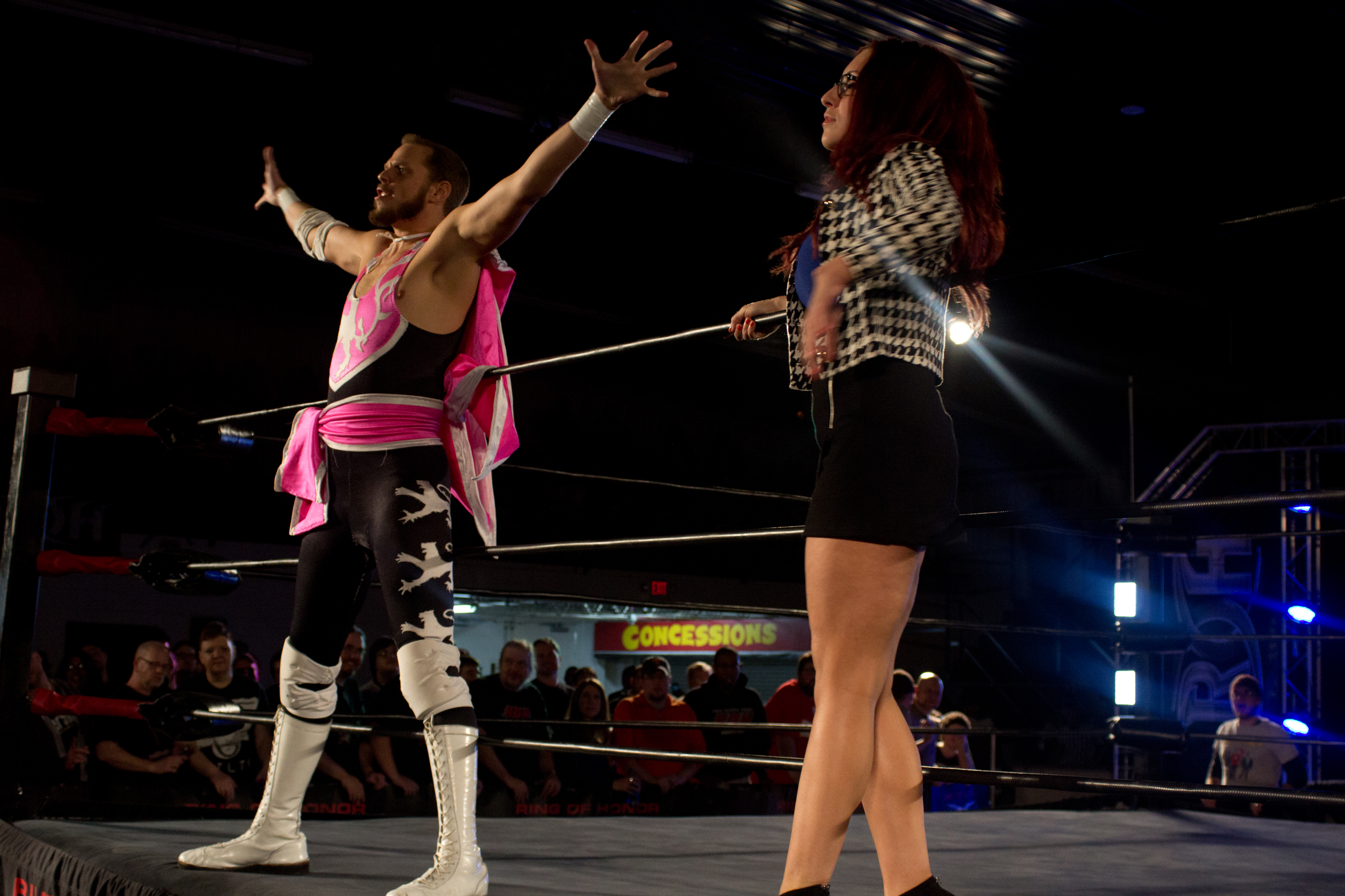 R.D. Evans and Veda Scott at a Ring of Honor show in January 2014 in Nashville.